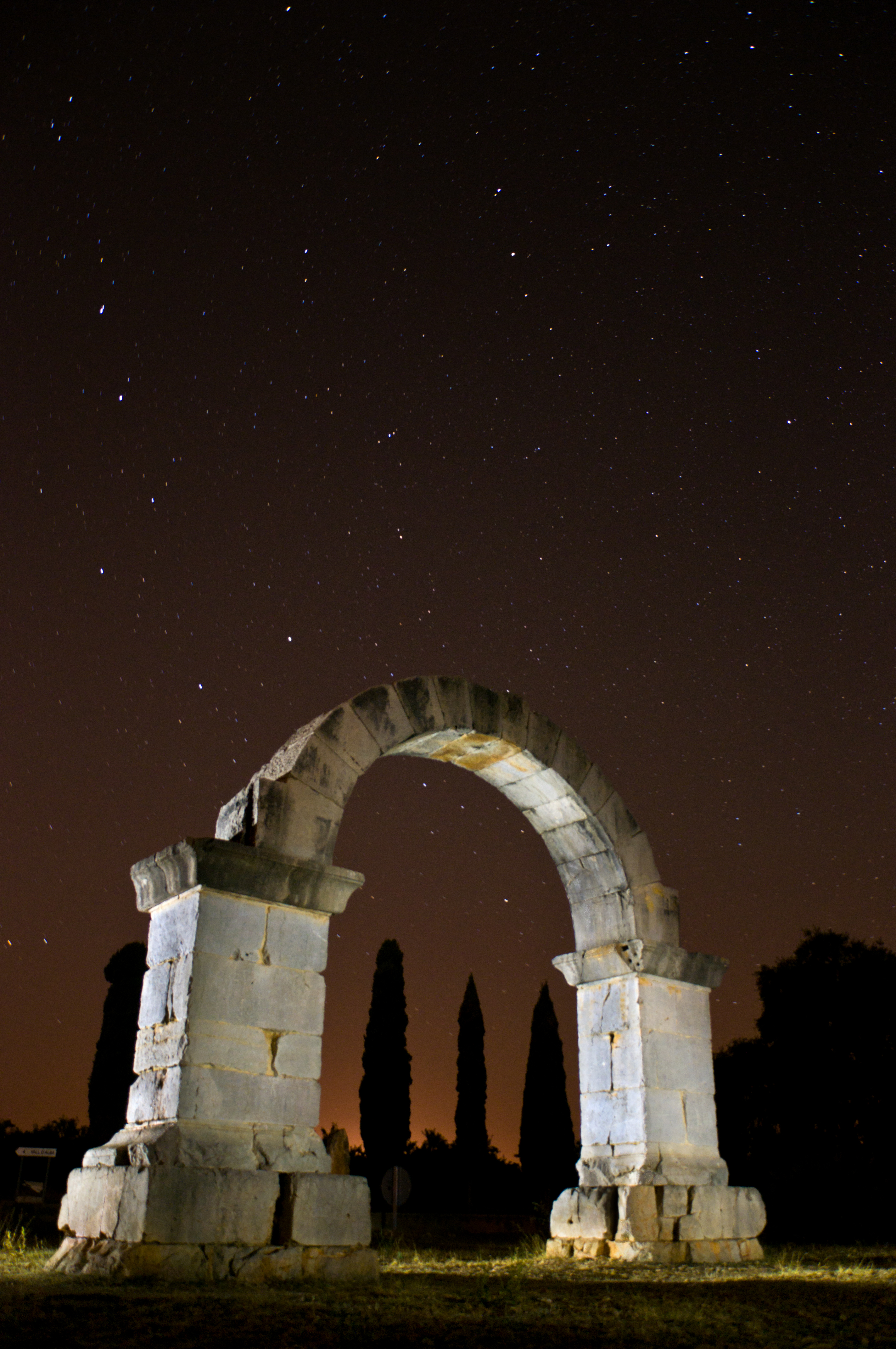 The Roman Arc Cabanes is a Roman triumphal arch built in the second century AD located in the Spanish town of Cabanes (Castellón), two miles from the city center next to the Via Augusta and current CV-159 road in the middle of the plain of the same name. According to their structural characteristics and models used in Roman times, its construction can be placed chronologically around the 2nd Century, due to finding the bottom of the arc of several coins of that time, in addition to its similarity to other contemporary monuments. Thanks to its location on the road and away from the Via Augusta and any Roman city or administrative boundary, it is likely that it is a private honorific arch-funeral, associated with a rural villa located next to the monument. The Roman Arch of Cabanes was declared a Historic-Artistic Artistic Treasures belonging to the National Order of 3 June 1931 and has since undergone several renovations and conservation programs. In 2004 the City of Cabanes developed the Special Plan for the Protection of the Path of the Romans and the Arc de Cabanes for its protection. The monument is incomplete, as it lacks the upper body above the arch. Only keep the two pillars and the arch, while the entablature and the spandrels are gone, and where the only decorations are the impost moldings and plinths. It has a height of 5.80 meters, width 6.92. It is constructed of limestone ashlar granite base together without mortar, which are preserved the two square pillars including heads and sockets, with the base and molded fascia, and on which rests the compound bow compound semicircular fourteen segments located radially wedge. The Roman Arch of Cabanes is included within a broader set of simple arches that span the entire Roman world.